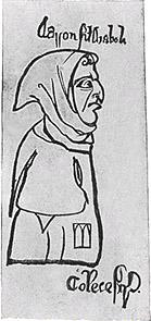 Aaron, Son of the Devil, From the Jewish Encyclopedia. Category:Jewish Encyclopedia images